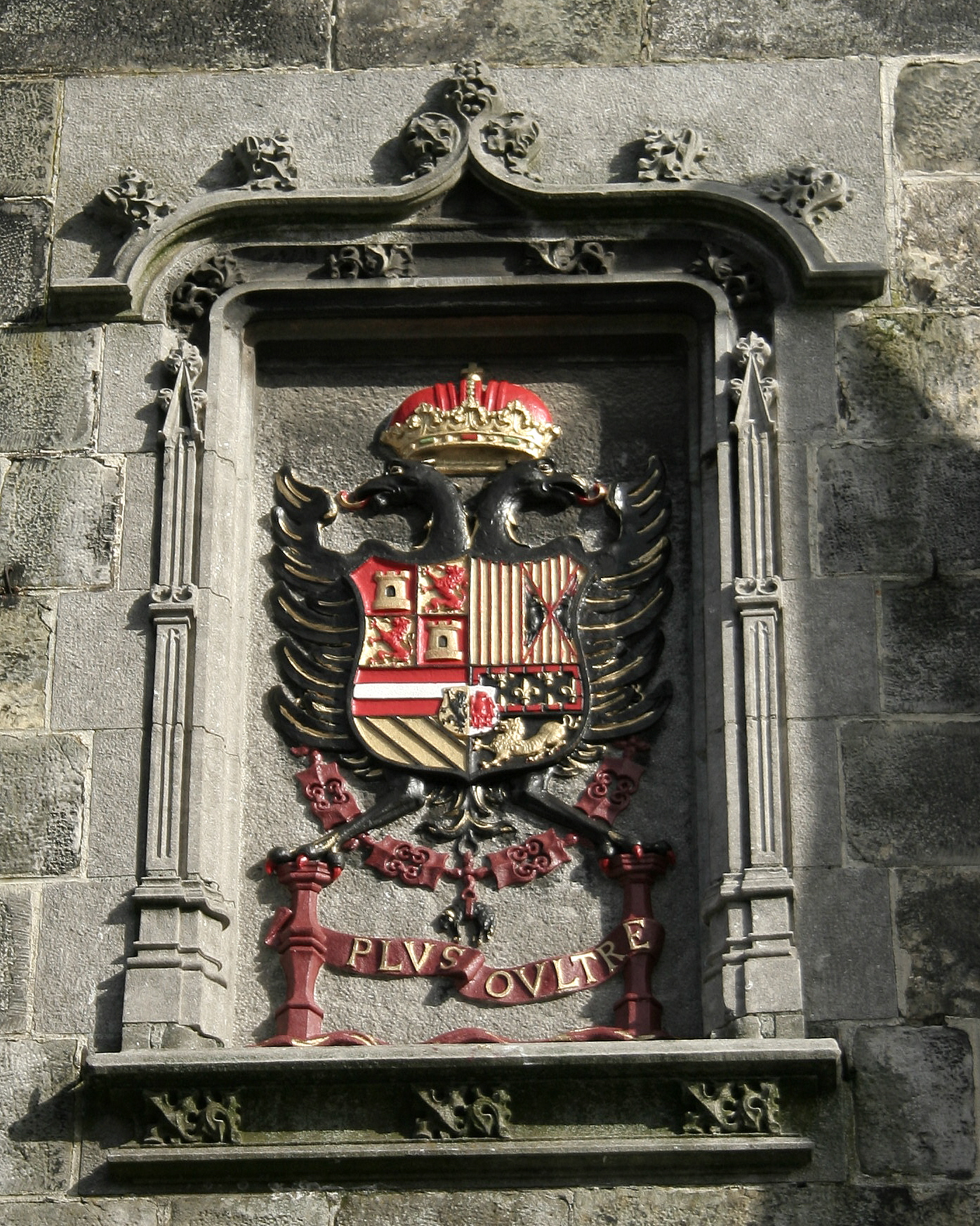 Binche (Belgium), the coat of arms and motto of Charles V, Holy Roman Emperor carved on the façade of the Town Hall.